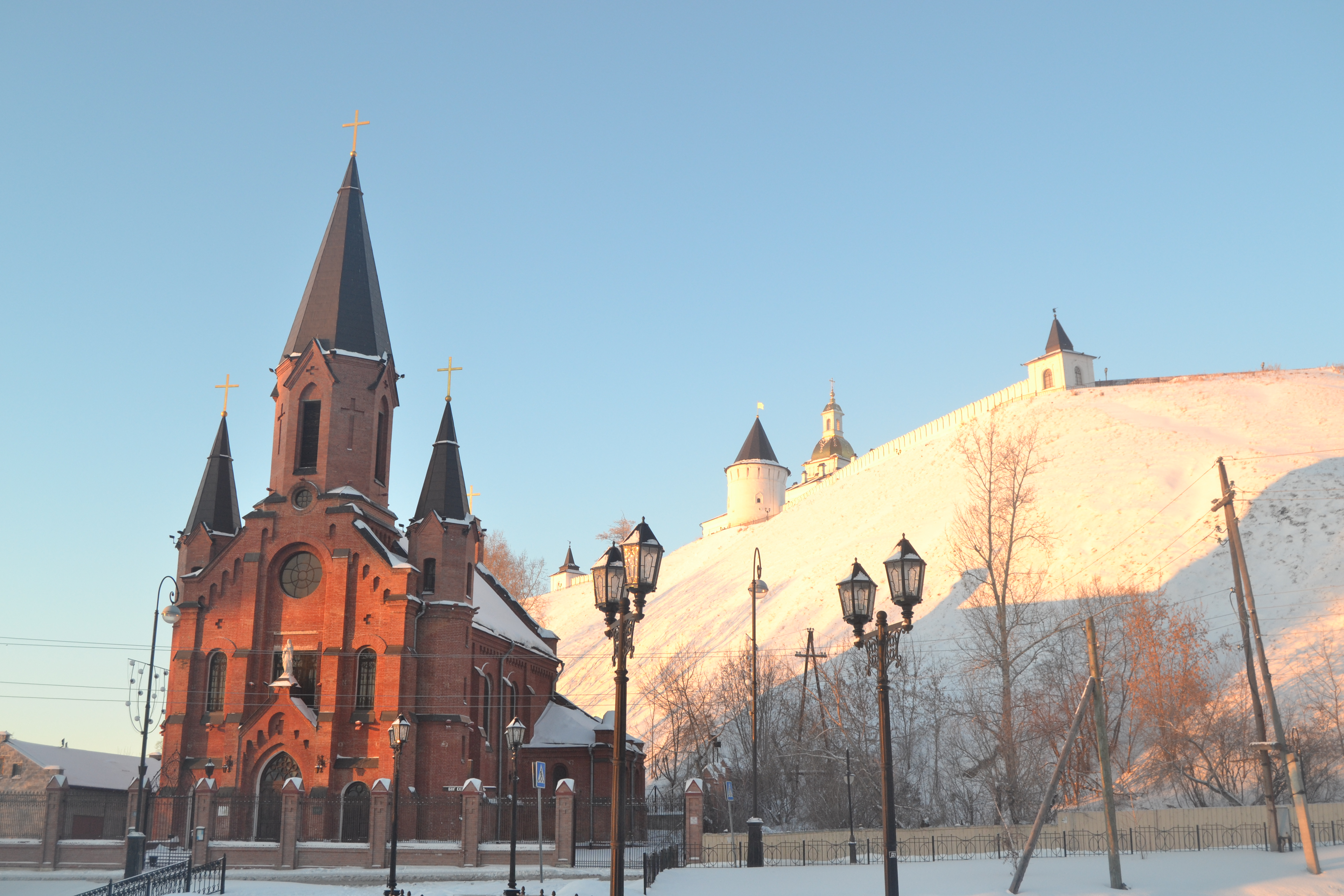 The Roman Catholic Church in Tobolsk (Russia, Siberia)